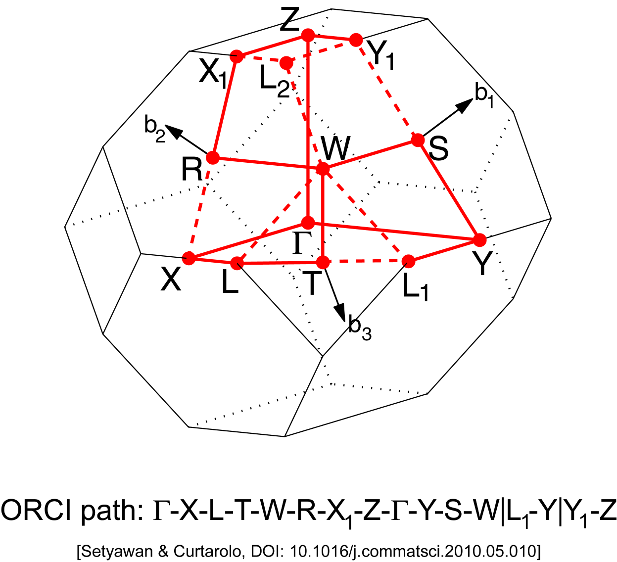 Curtarolo, consortium